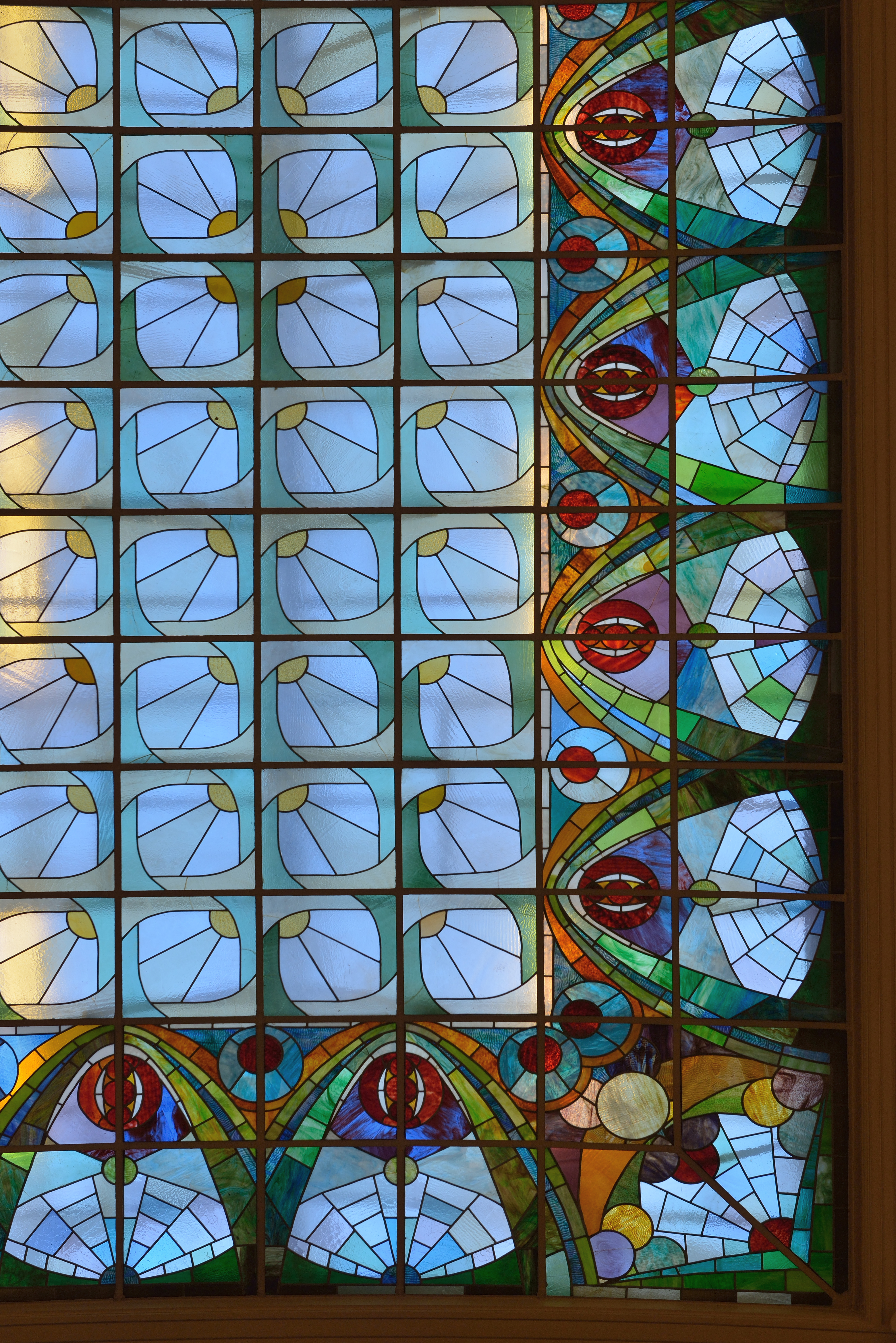 Stained glass decoration in art nouveau stile in the dining room, Grand Hotel Europe in Saint Petersburg 1905.